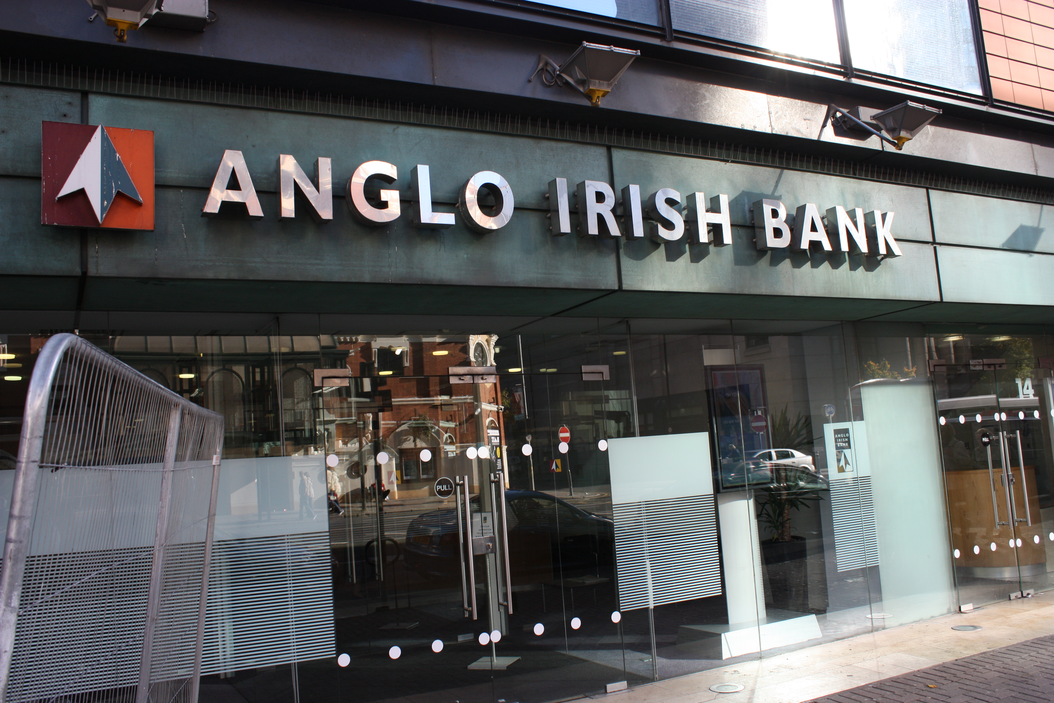 Anglo Irish Bank, Great Victoria Street, Belfast, Northern Ireland, October 2010